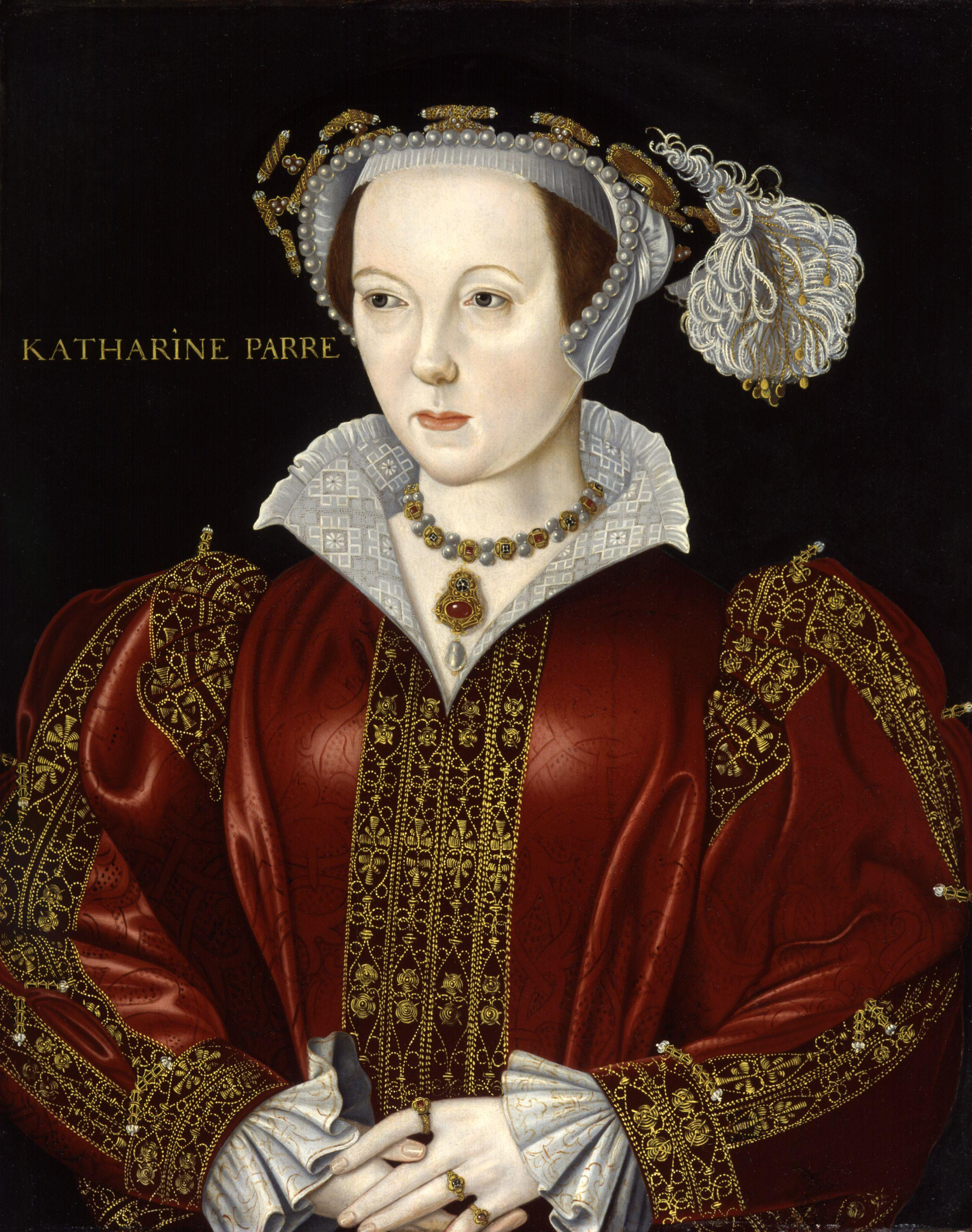 A portrait of Catherine Parr (1512–1548), sixth and last wife of Henry VIII of England by an unknown artist.